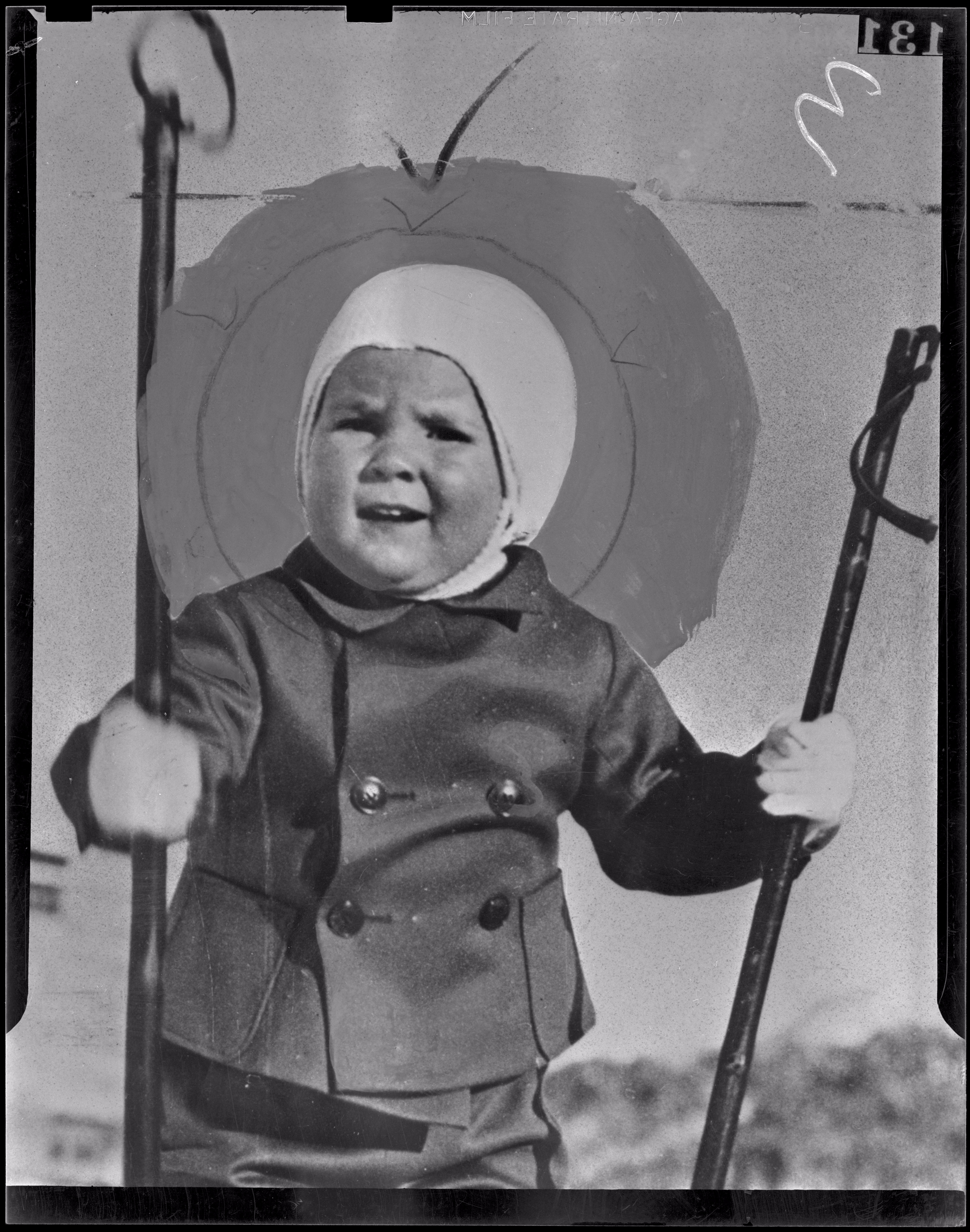 Lance is dressed for winter in a jacket, gloves, and a white hat. This photograph is part of a collage of world events of 1938.